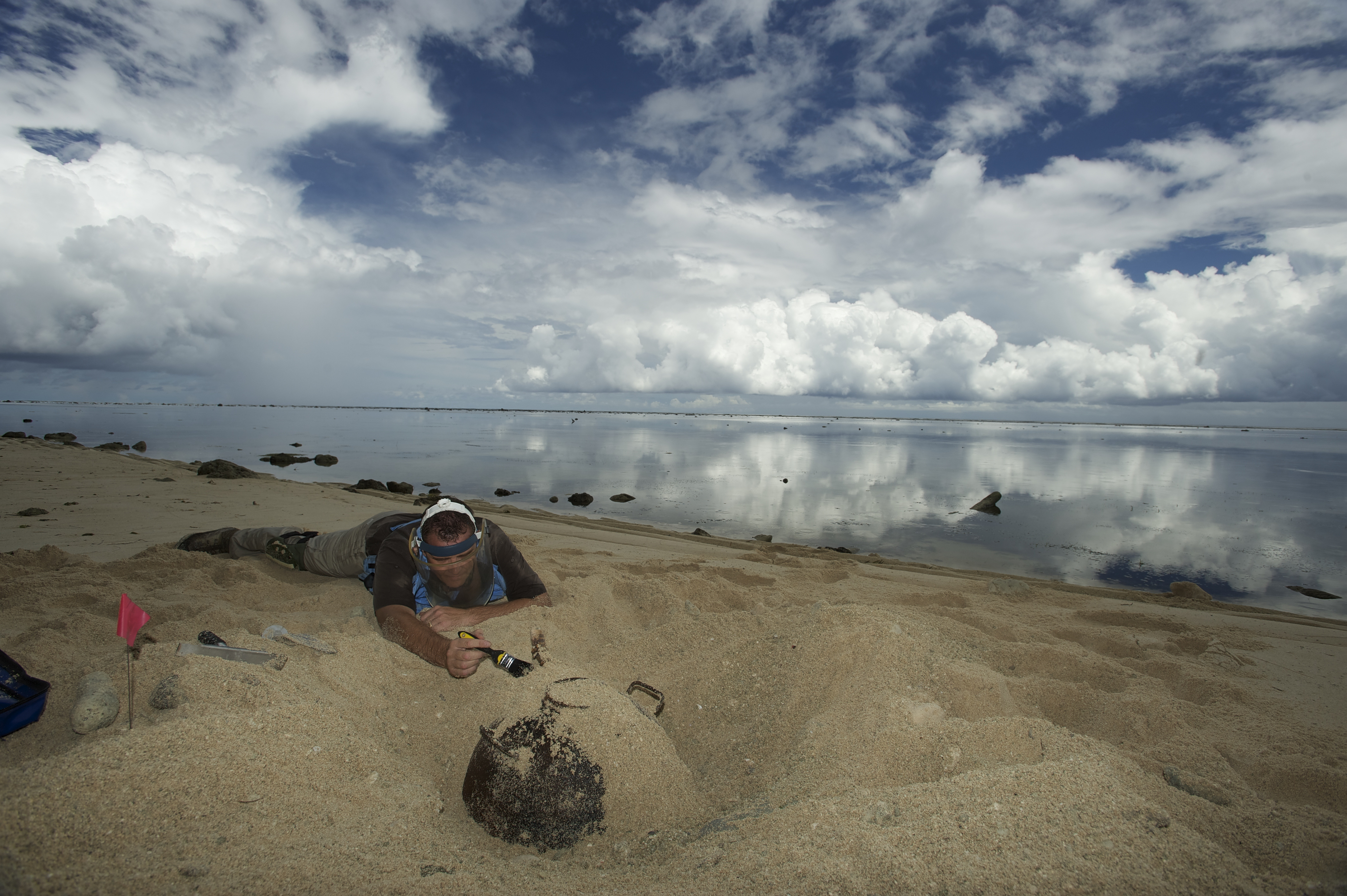 Australia is supporting Cleared Ground Demining to remove explosive remnants of war in Peleliu, Palau. Photo: Cleared Ground Demining and Todd Essicks